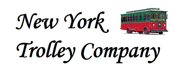 New York Trolley Company's Logo